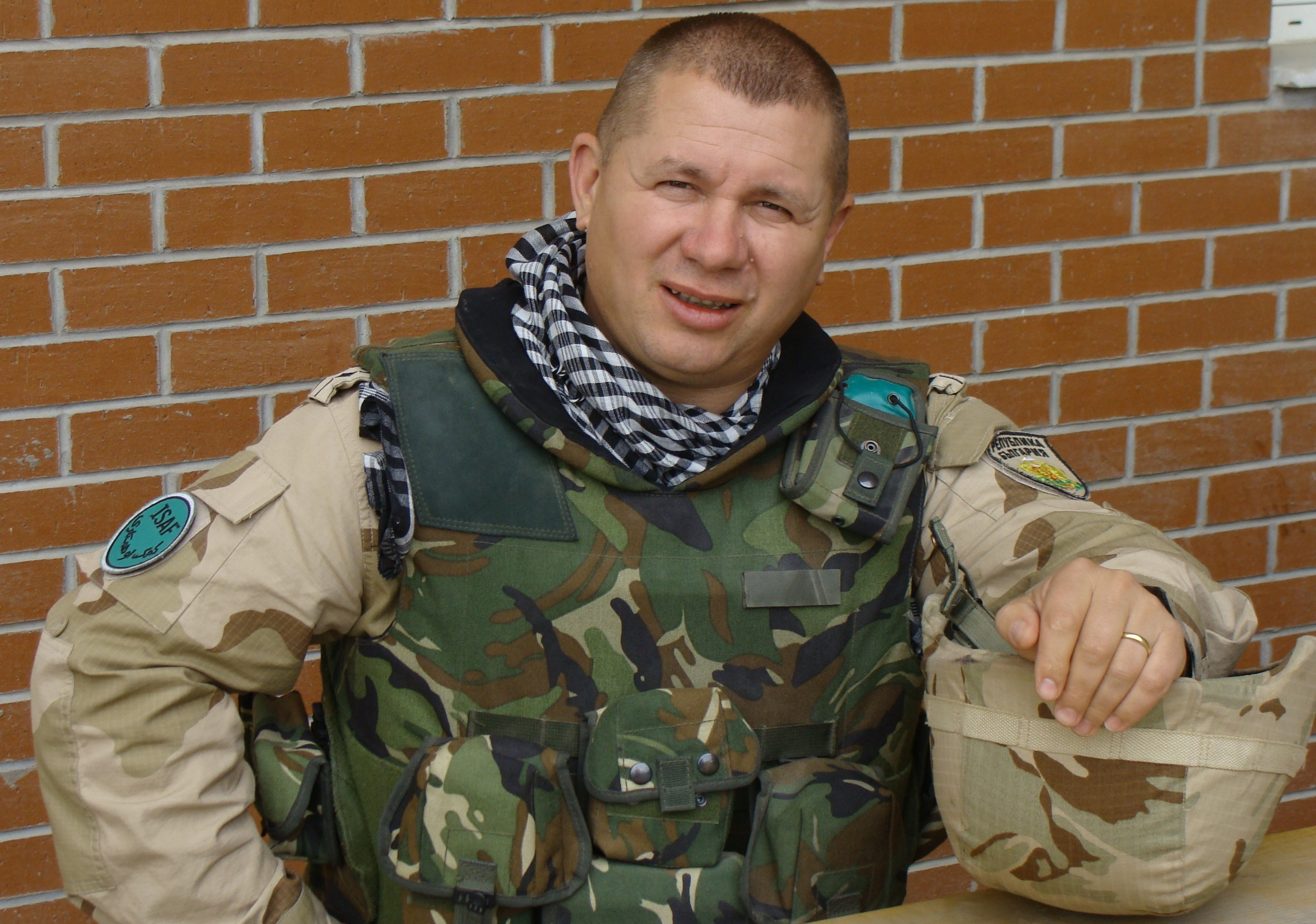 Colonel Shivikov in KAIA